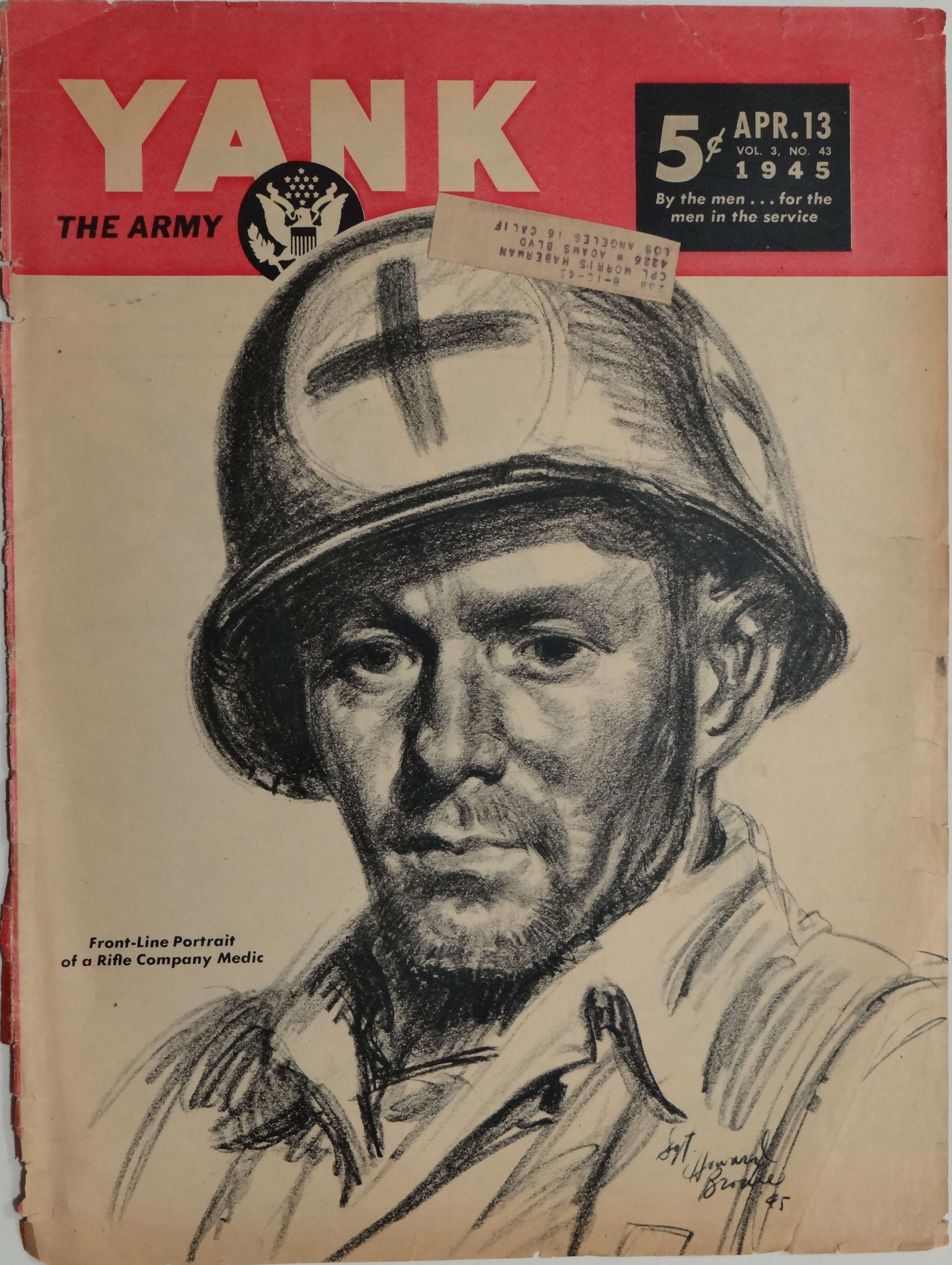 Portrait of a Front-Line Rifle Company Medic for the April 13, 1945 issue of Yank, the Army Weekly, a weekly U.S. Army magazine fully staffed by enlisted men.